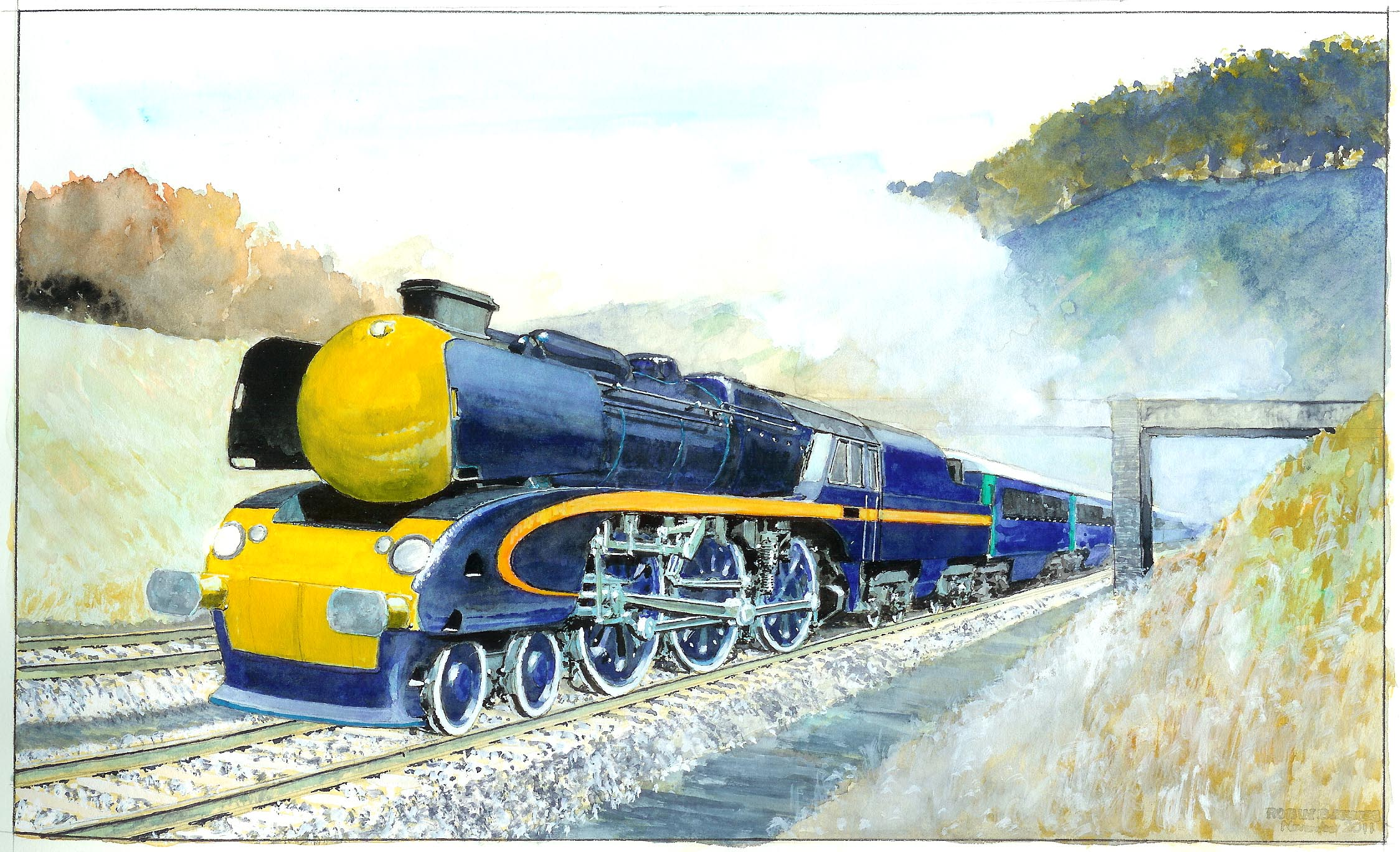 5AT locomotive illustrated in its final form with modified skirting below the front buffer beam.